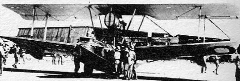 Vickers Vulture flying boat